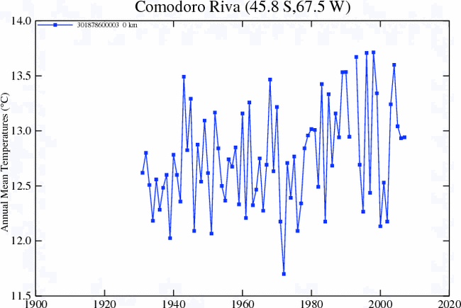 Graph of 1931-2007 air average temperature of Airport of Comodoro Rivadavia, Argentina.